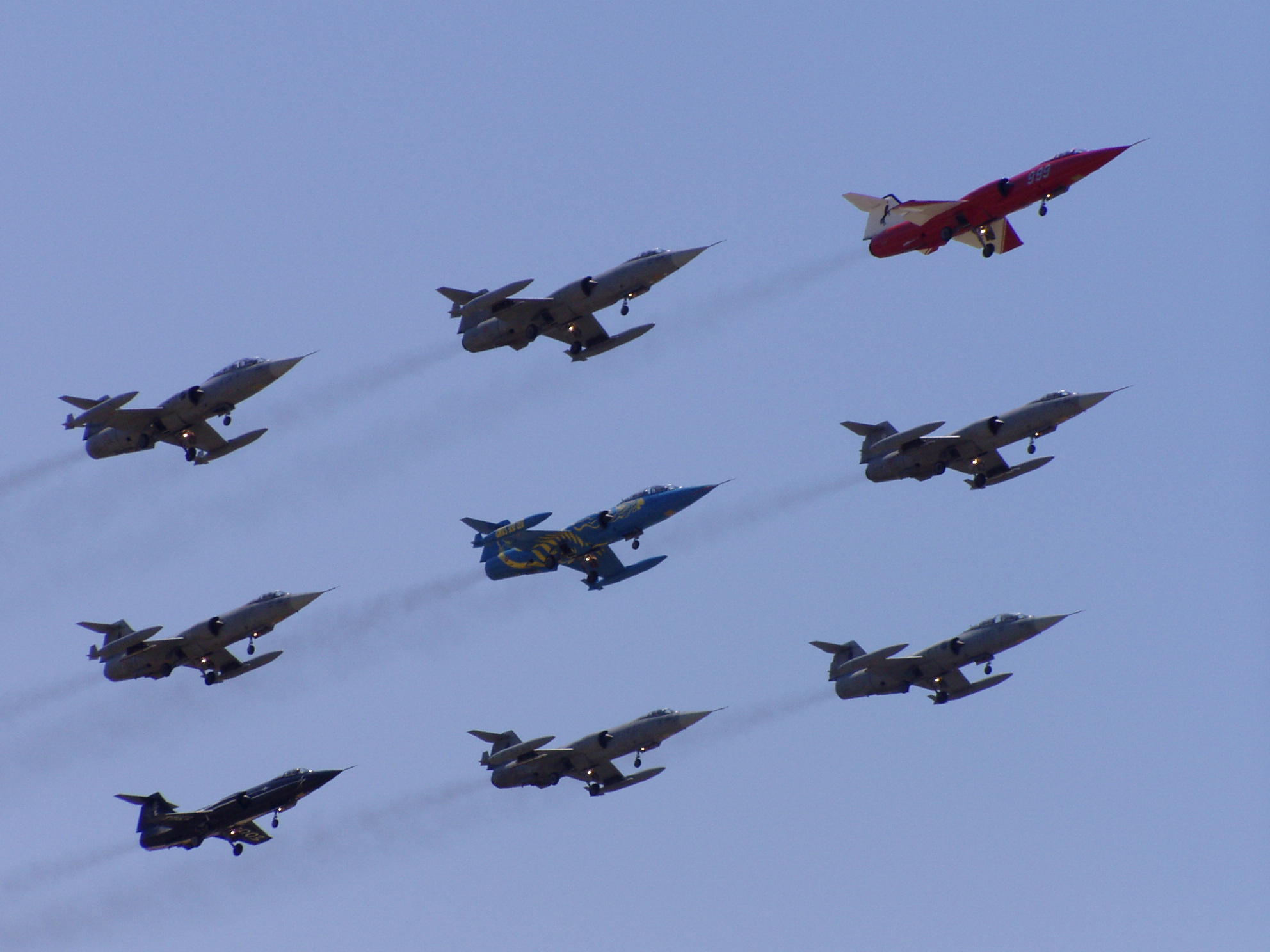 Photo of F104 fighters in the sky of Pratica di Mare airport, Rome (Italy) during the F104 Starfighter World Meeting. Dimensions length 16.69 m height 4.11 m wing span 6.68 m Powerplant one afterburning thrust General Electric J79 GE-19 turbojet maximum cruise speed Mach 2.2 combat radius 1250 km with maximum fuel